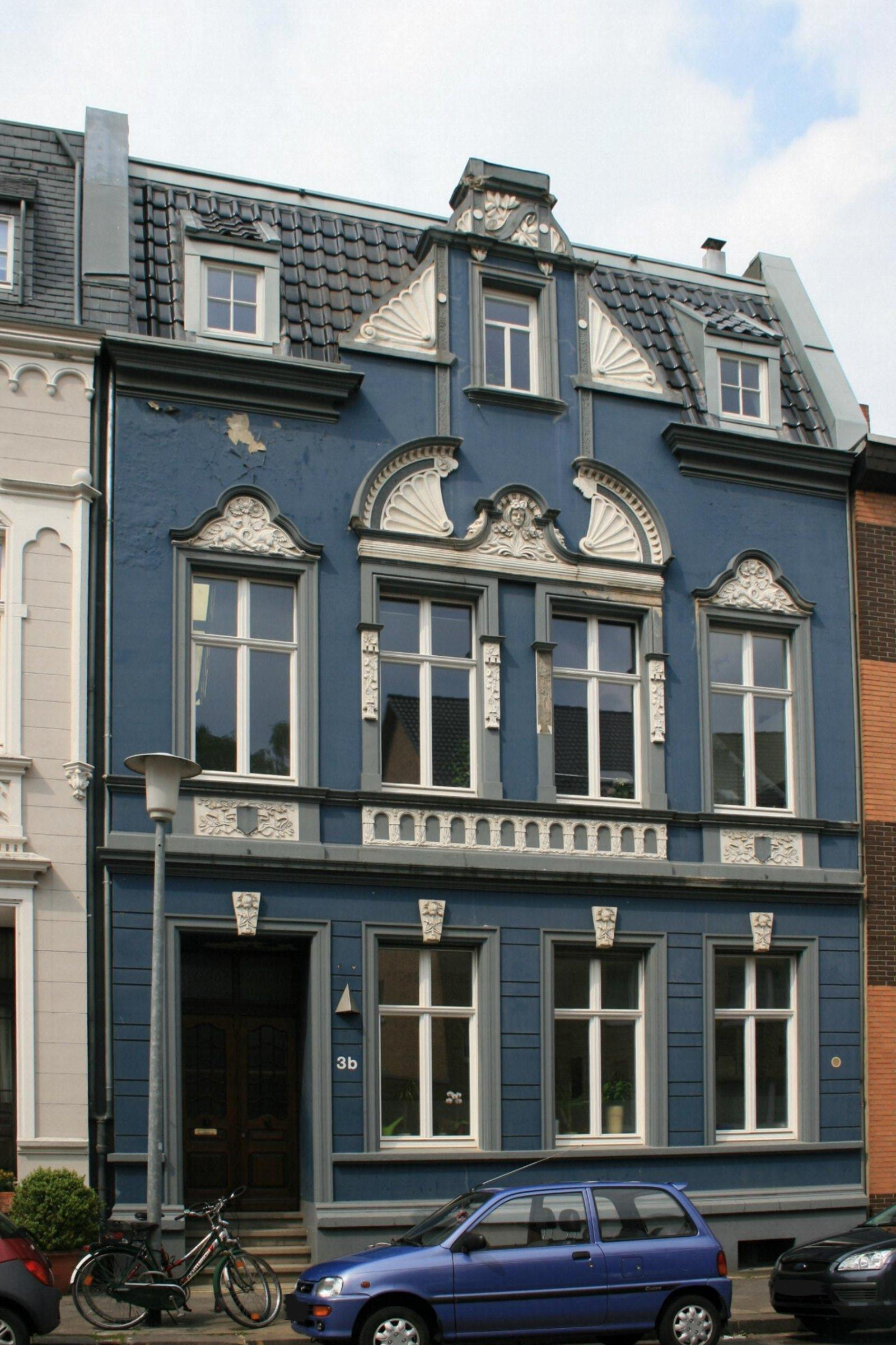 Cultural heritage monument No. H 003 in Mönchengladbach